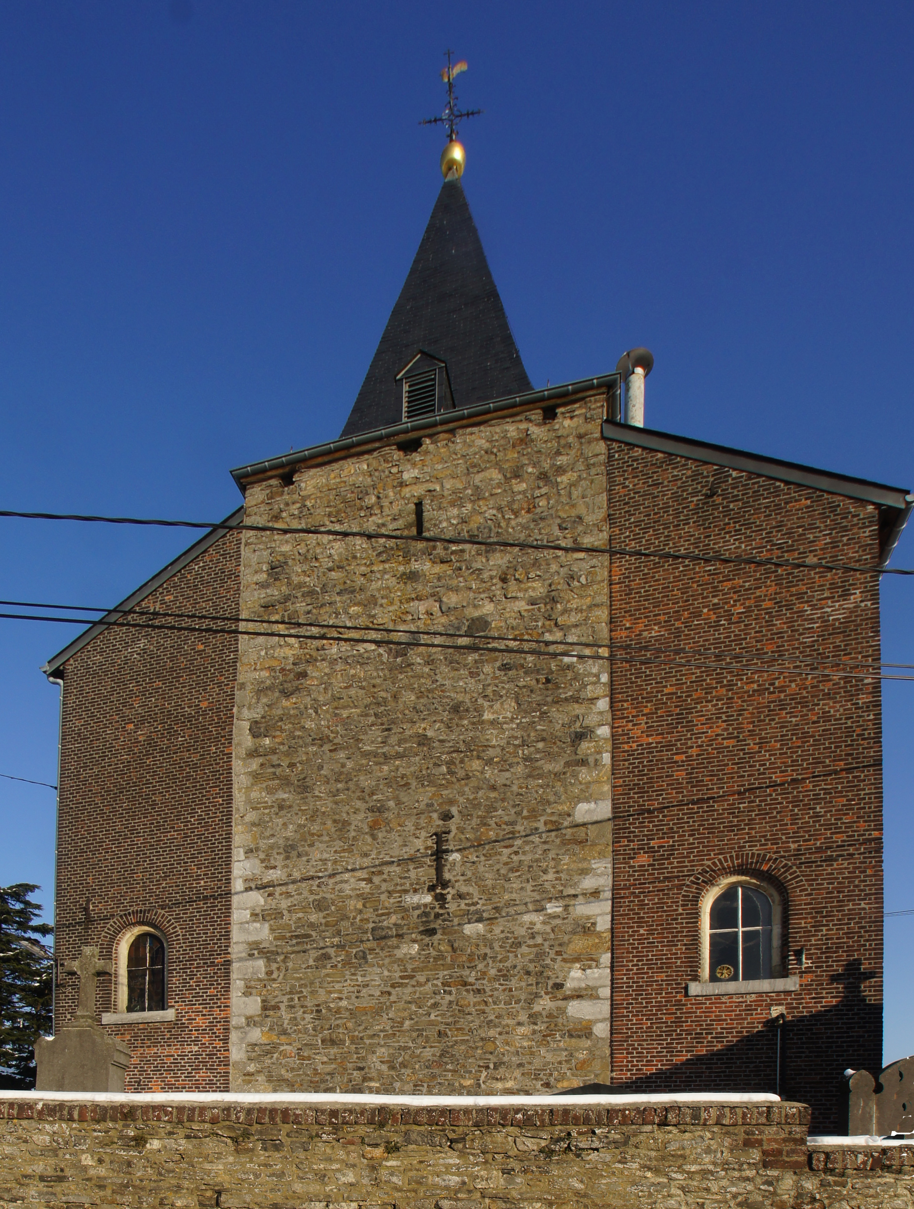 Dalhem (Saint-André (Belgique)), Belgium: Tower of Saint Andrew's Church